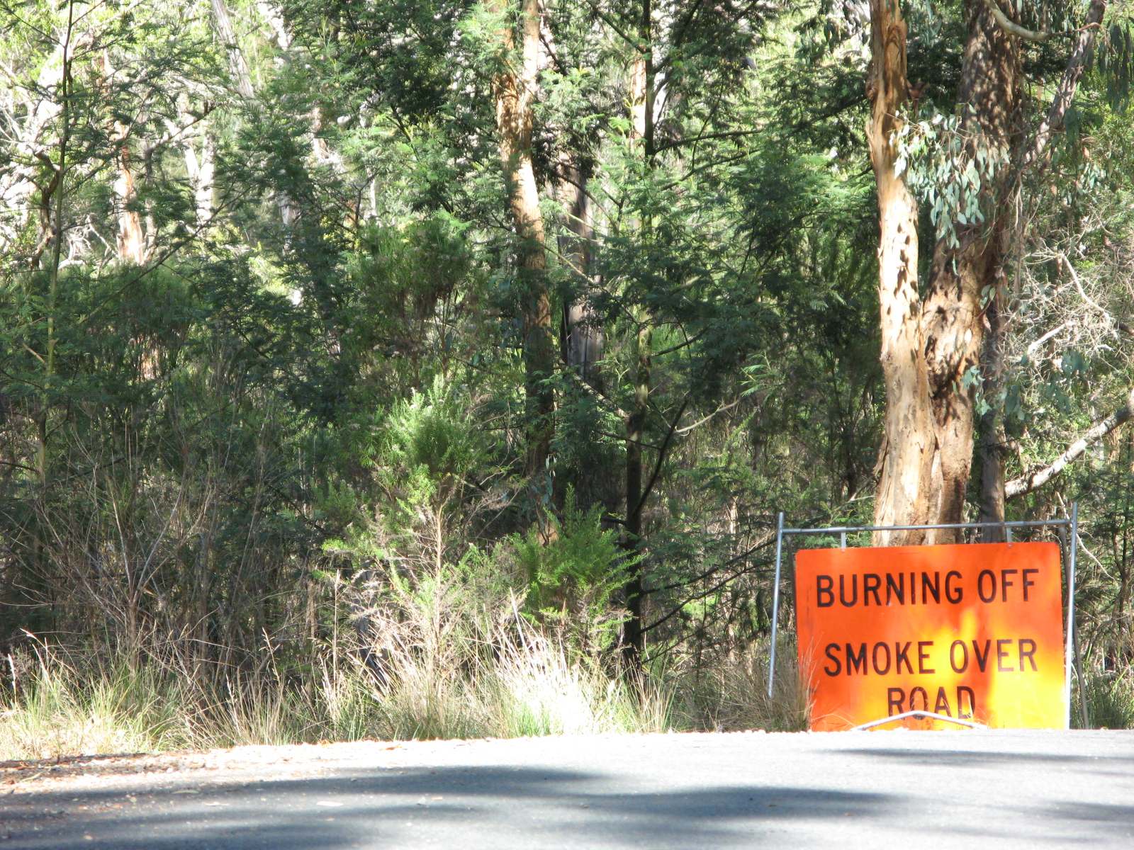 Signage indicating to motorists of smoke from controlled burns in the area that may reduce visibility. Photo taken by Nick carson in 2008.